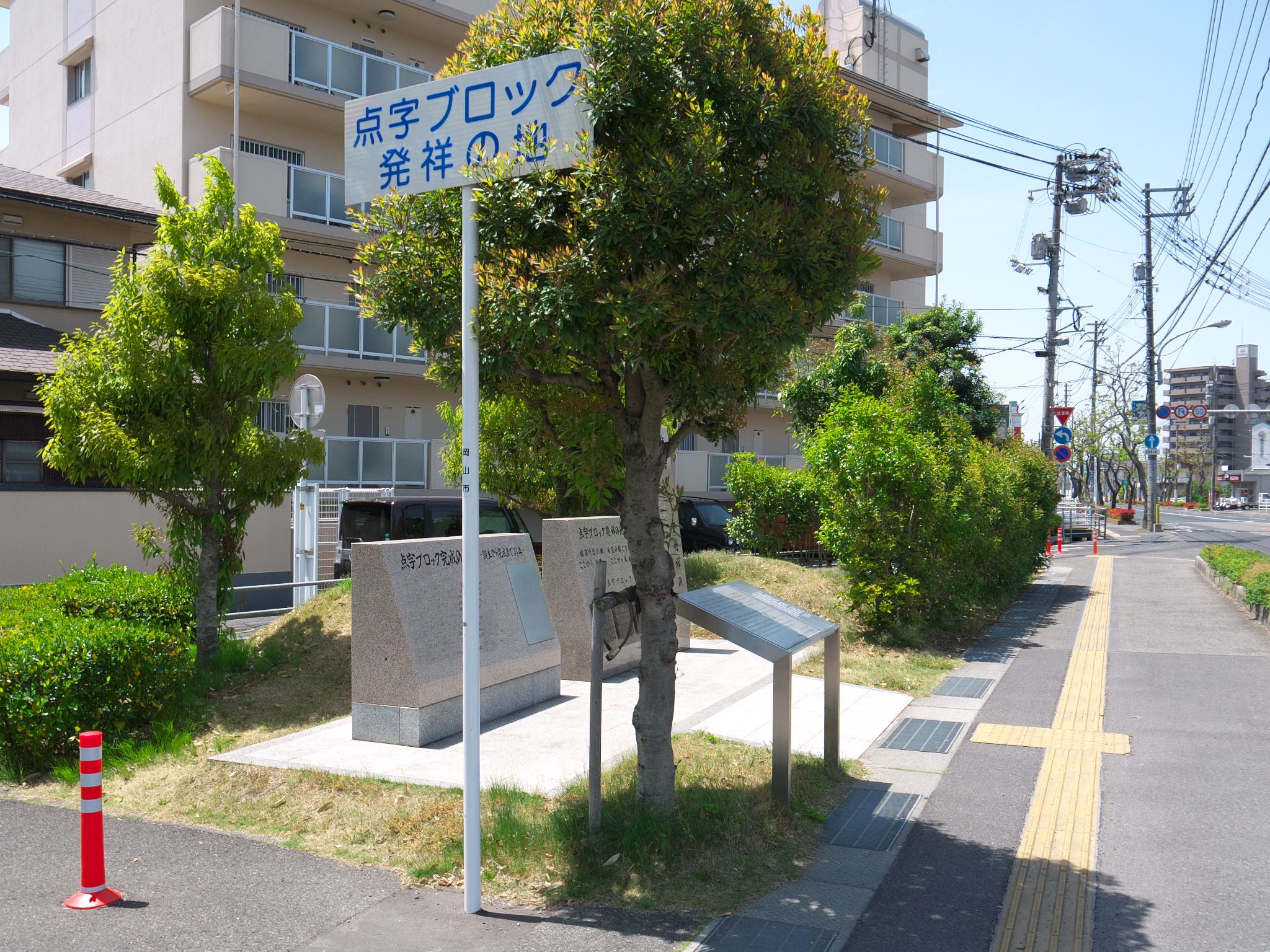 Birthplace of tactile paving in Haraoshima, Naka-ku, Okayama